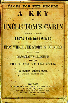 Cover of the 1854 edition of A Key to Uncle Tom's Cabin by Harriet Beecher Stowe.